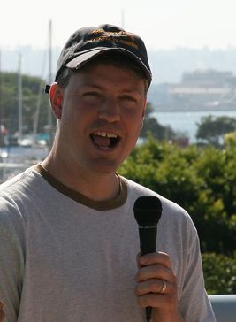 Steven Weibe at ComiCon 2007